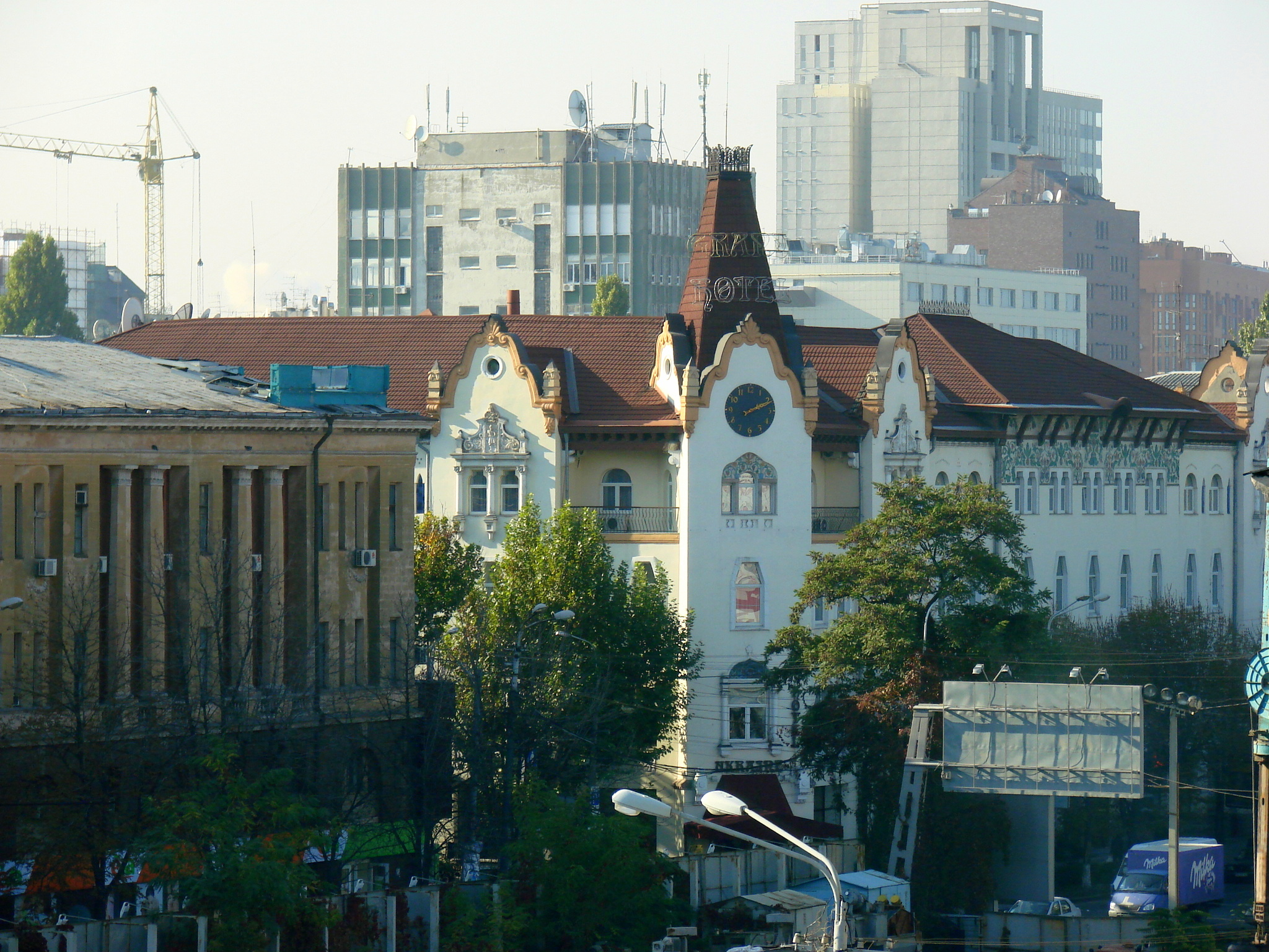 Grand Hotel Ukraine, Dnipropetrovsk, Ukraine